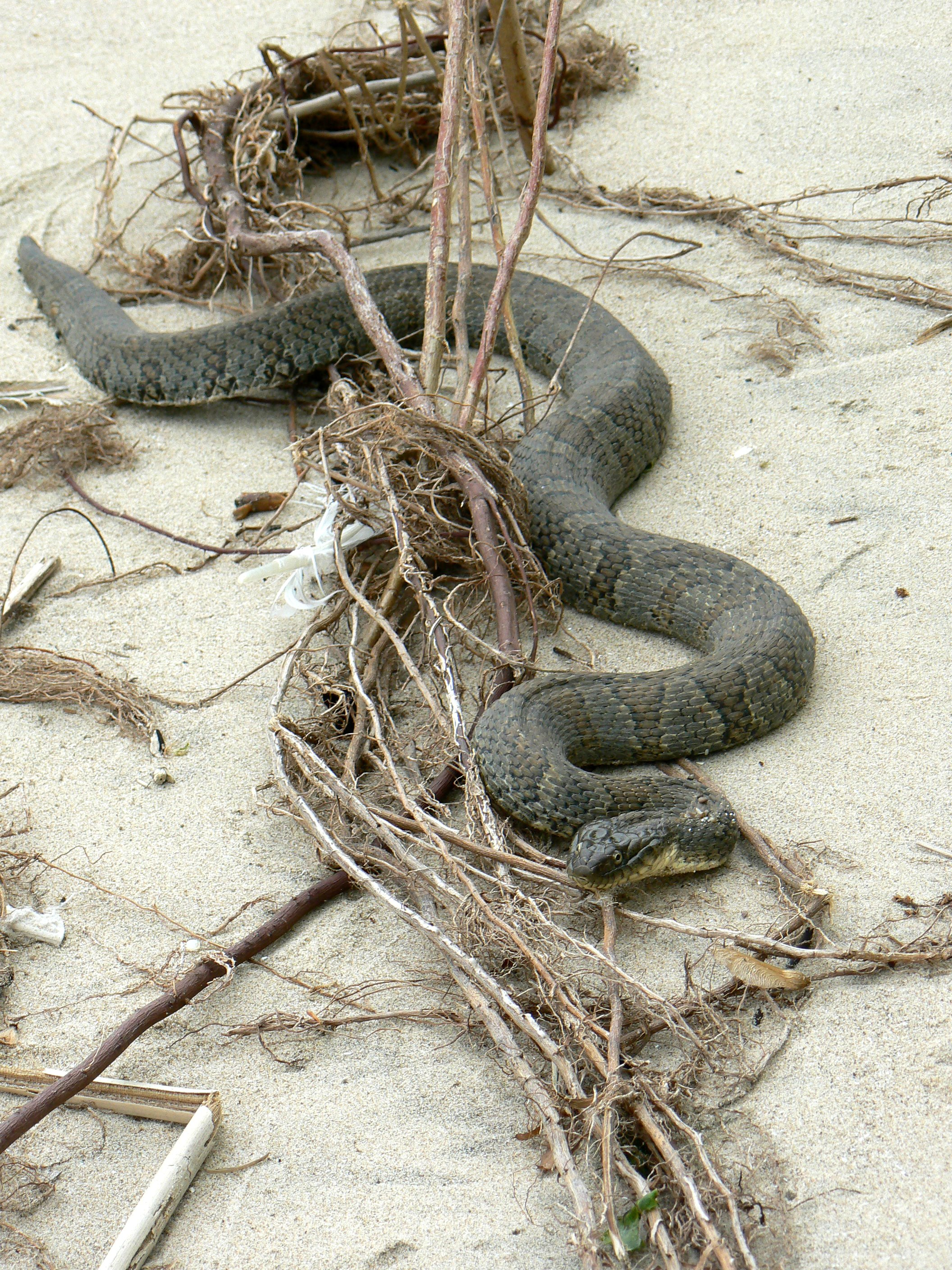 Nerodia sipedon The Lake Erie Water Snake is an endangered species that only lives on the island beaches of Lake Erie. So, of course when Katie spotted something slithering along the beach, I had to go harass it by taking its picture.